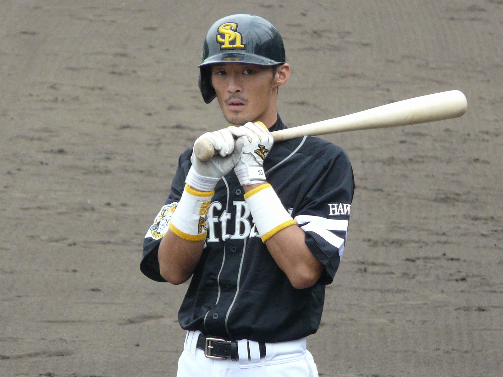 Keisuke Kaneko, infielder of the Fukuoka SoftBank Hawks, at Hanshin Naruohama Baseball Ground.